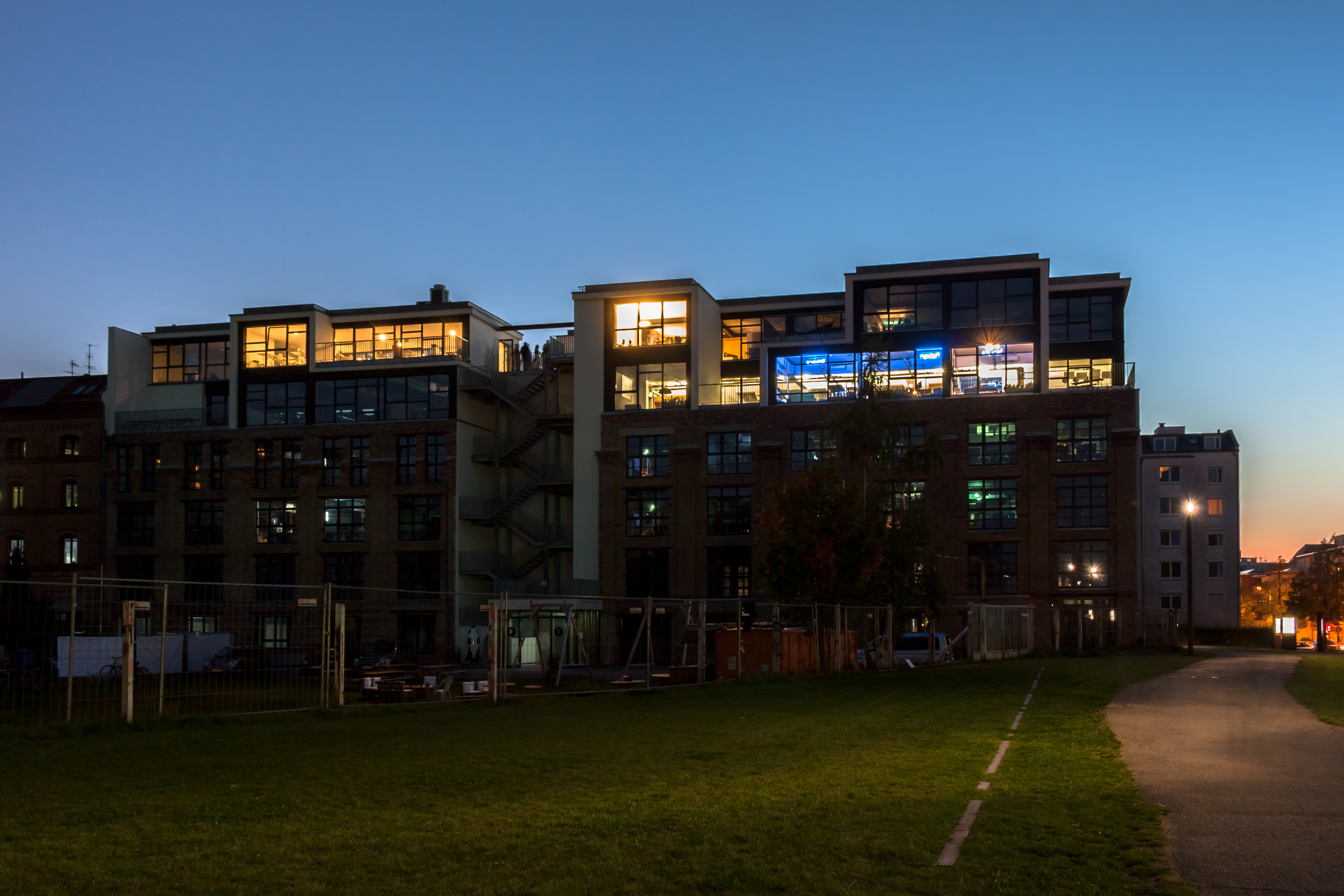 Factory Berlin in Berlin-Mitte at dusk.